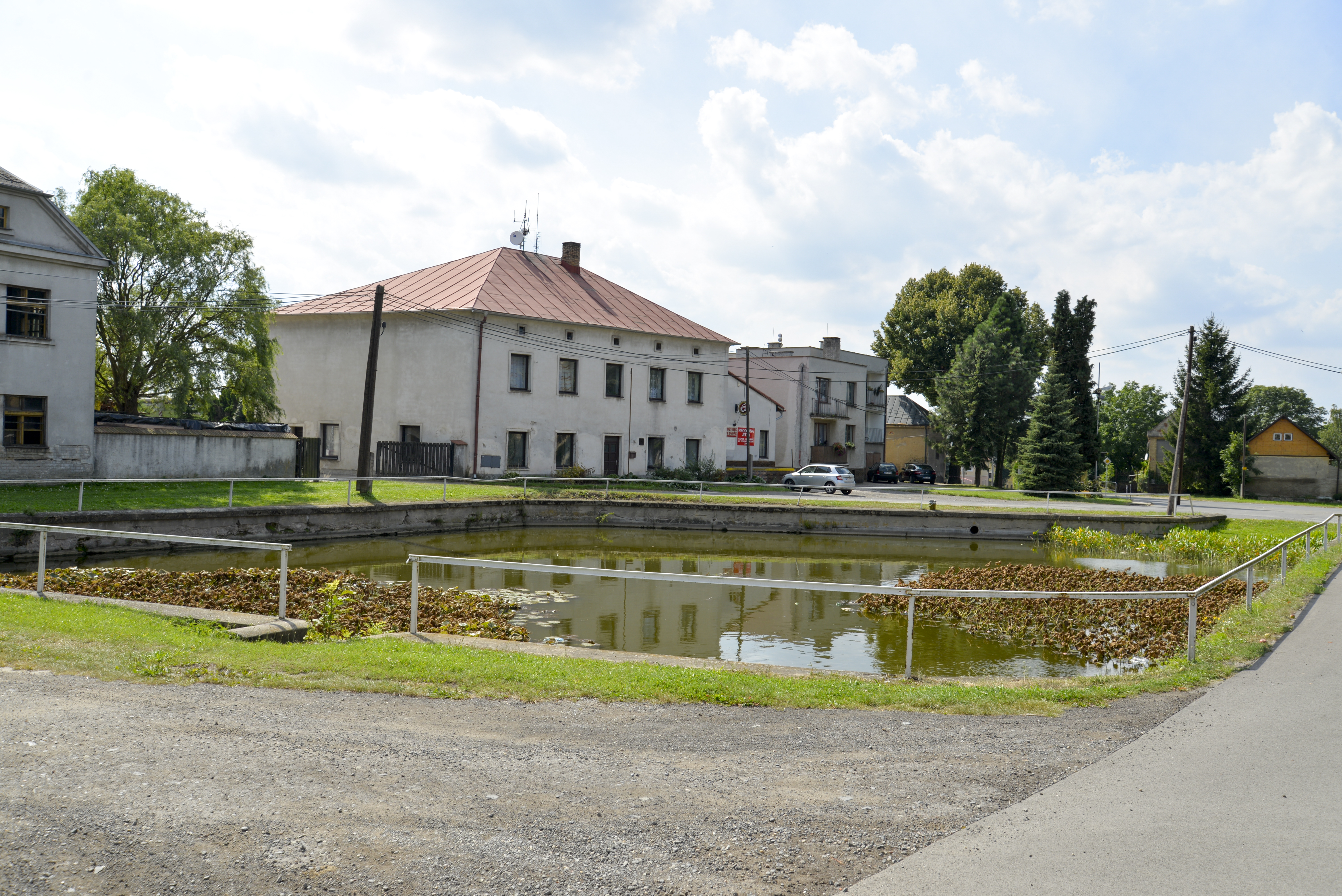 Bukovno, Mladá Boleslav District, village green